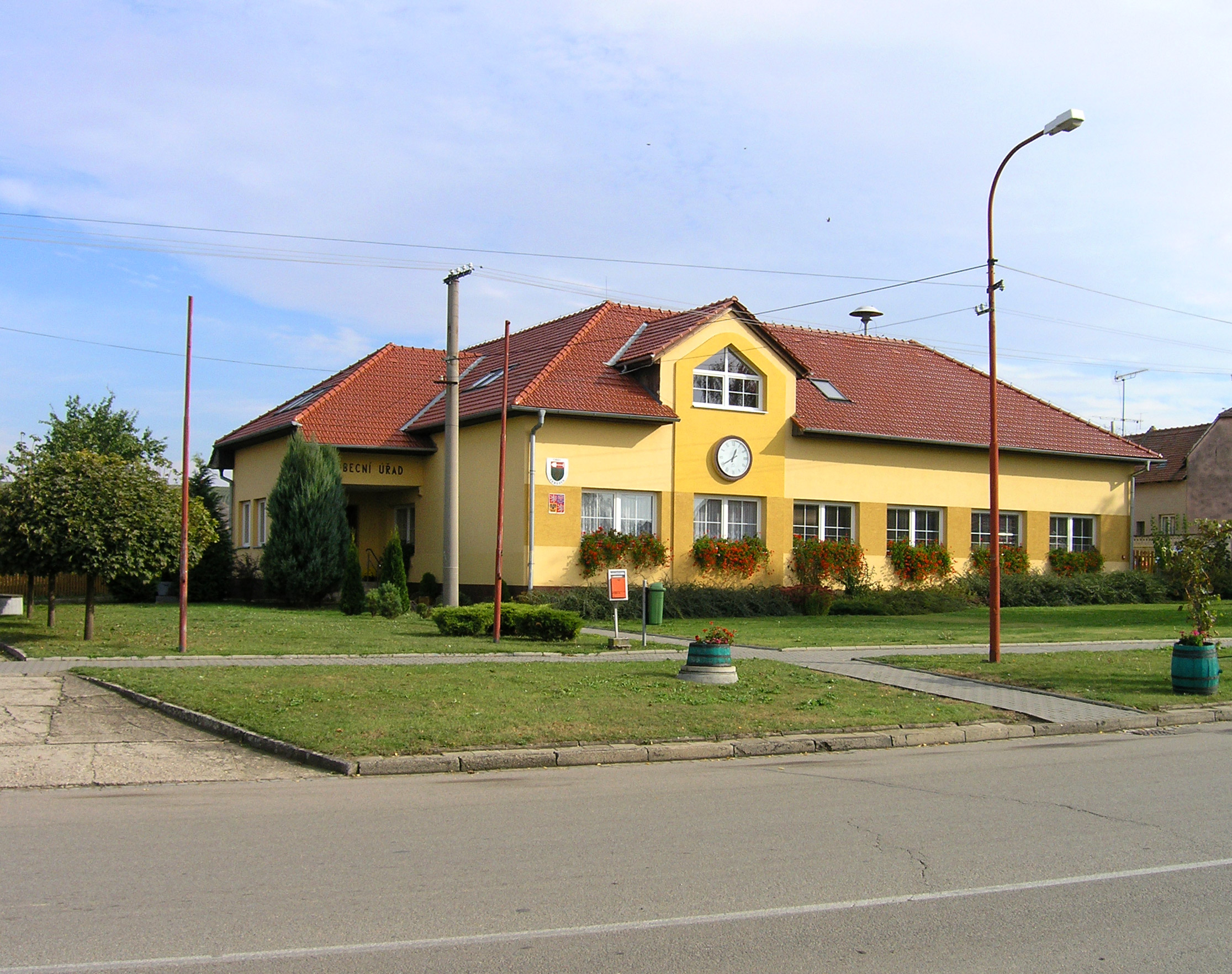 Municipal office in Terezín village, Czech Republic (Moravia)